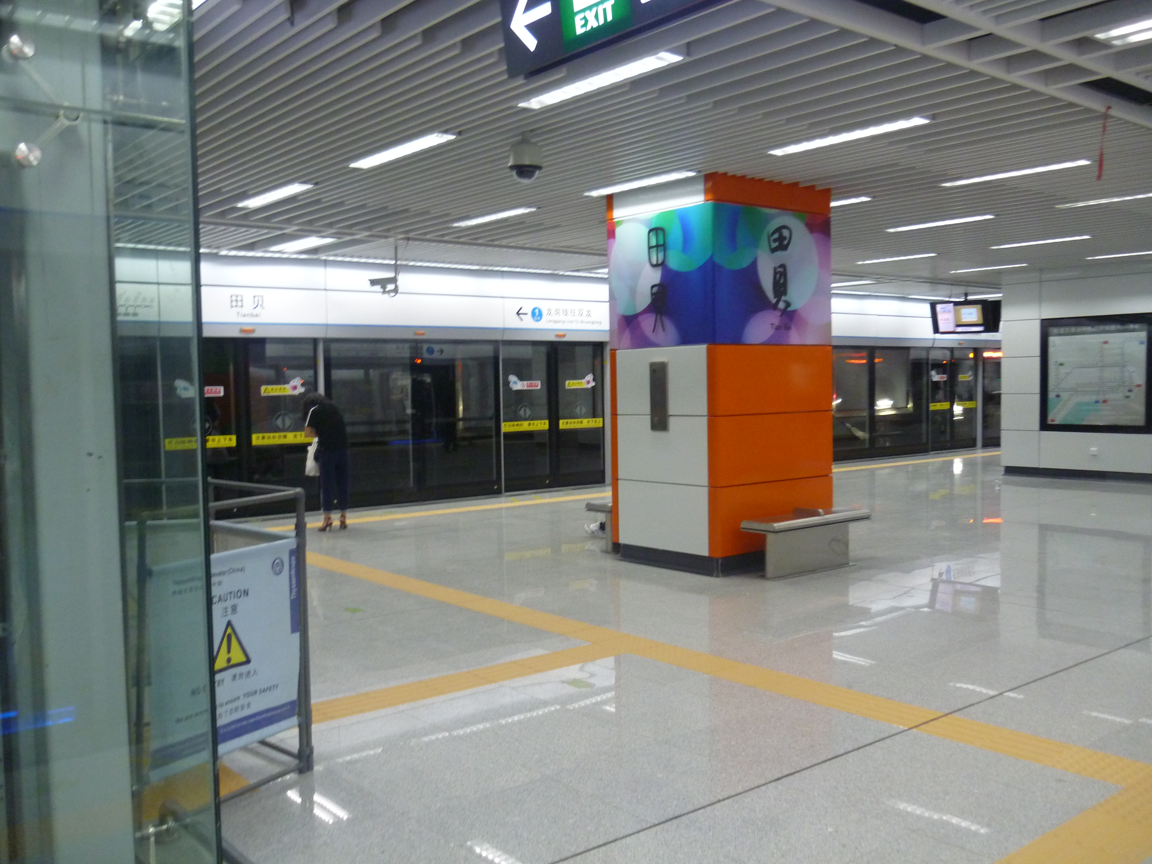 Platform of Tian Bei Station.